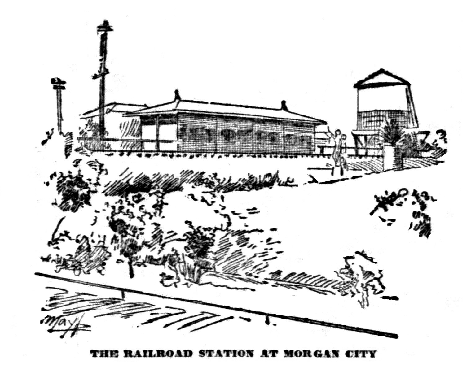 Published in the New Orleans Times-Democrat.